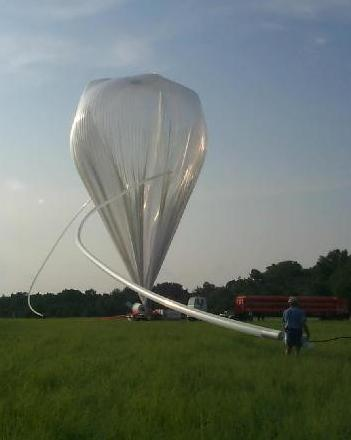 credit to "The MAXIMA Collaboration" according to the website you're free to copy the image but you've to credit